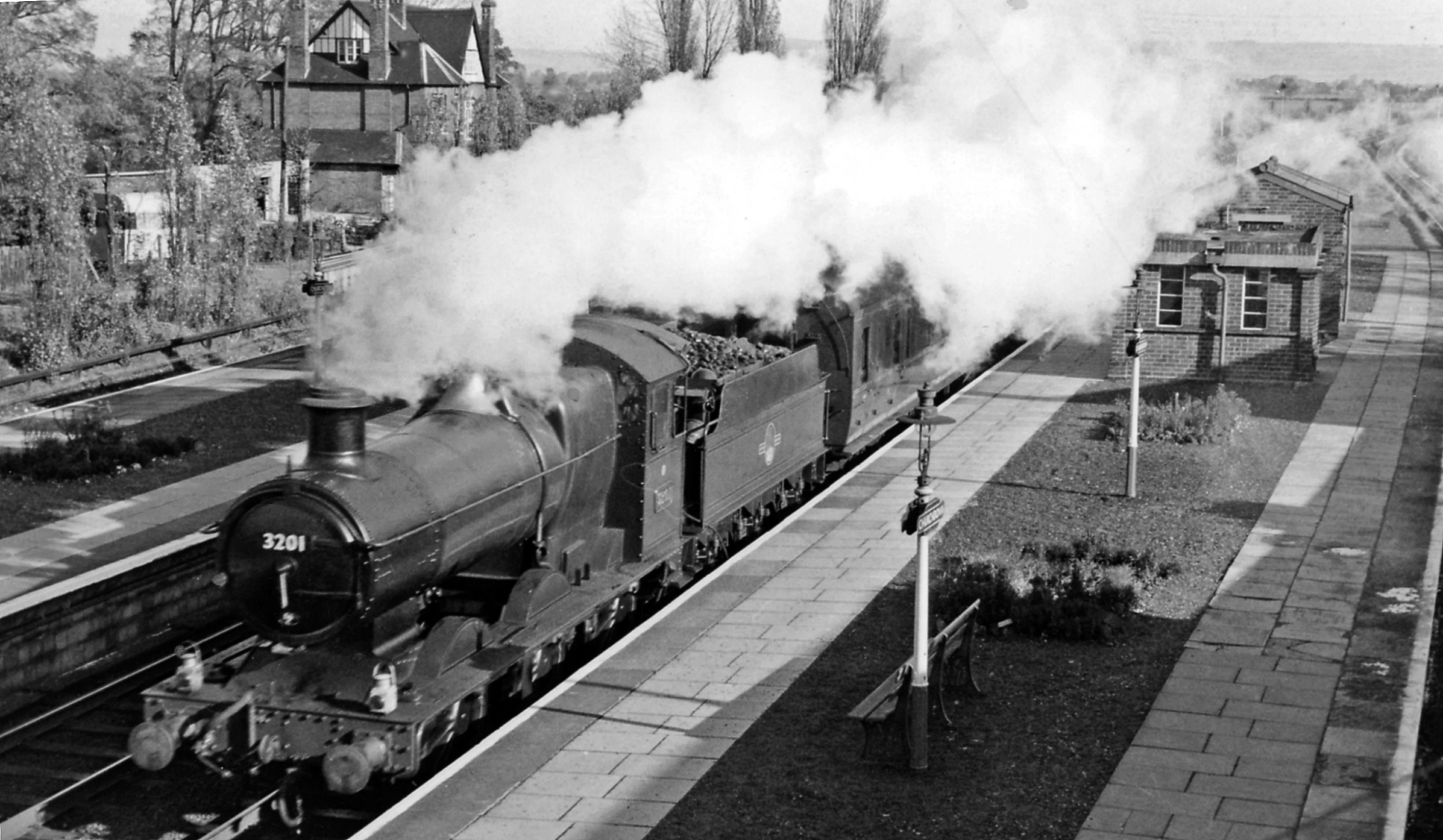 Cheltenham - Paddington express passing Churchdown station. View eastward, towards Cheltenham, also Birmingham etc.: ex-GW & Midland Joint main line (Cheltenham Lansdown Junction - Gloucester Engine Shed Junction section, quadrupled August 1942). In steam days, London trains were worked by smaller engines between Cheltenham St James' and Gloucester, where they reversed and a 4-6-0 express locomotive took over; here a smart ex-Works Collett '2251' 0-6-0 No. 3201 (built 9/46) is bringing the 11.45 Paddington express from St James' as far as Gloucester. At Churchdown the new lines in 1942 were taken round the back on each side and the partially rebuilt station was provided with two island platforms. Then from 2/11/64 the station was closed and - after only 24 years' use - in 1966-67 the relief lines were taken up because through traffic had fallen off to such an extent. (See also SO8820 : 'Jubilee' Class 4-6-0 'Leander' at Churchdown and SO8820 : Up Midland line freight approaching Churchdown Station).